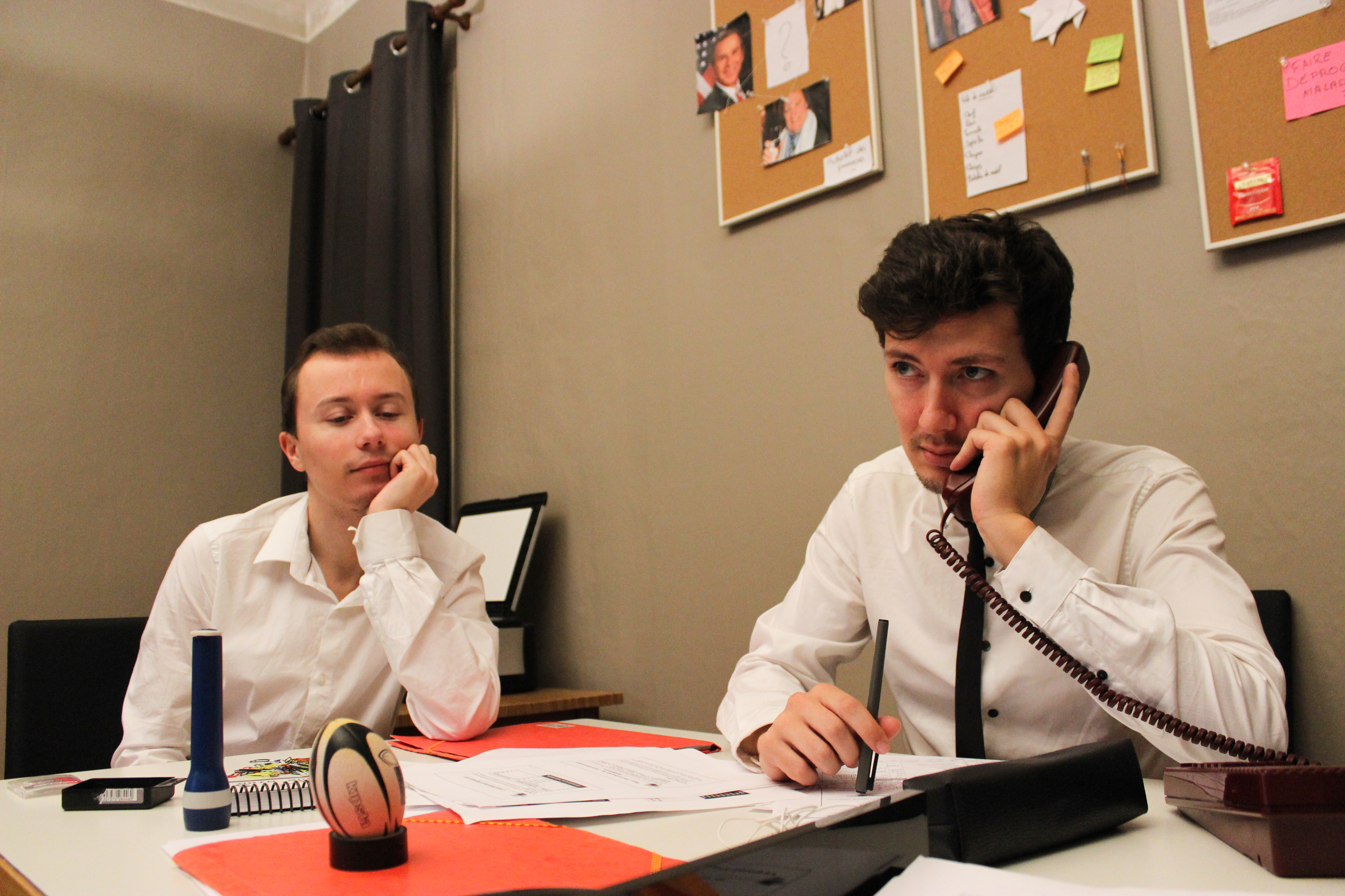 Photo of the web serie SDI - Stagiaire à durée indéterminée by Alban Valembois.